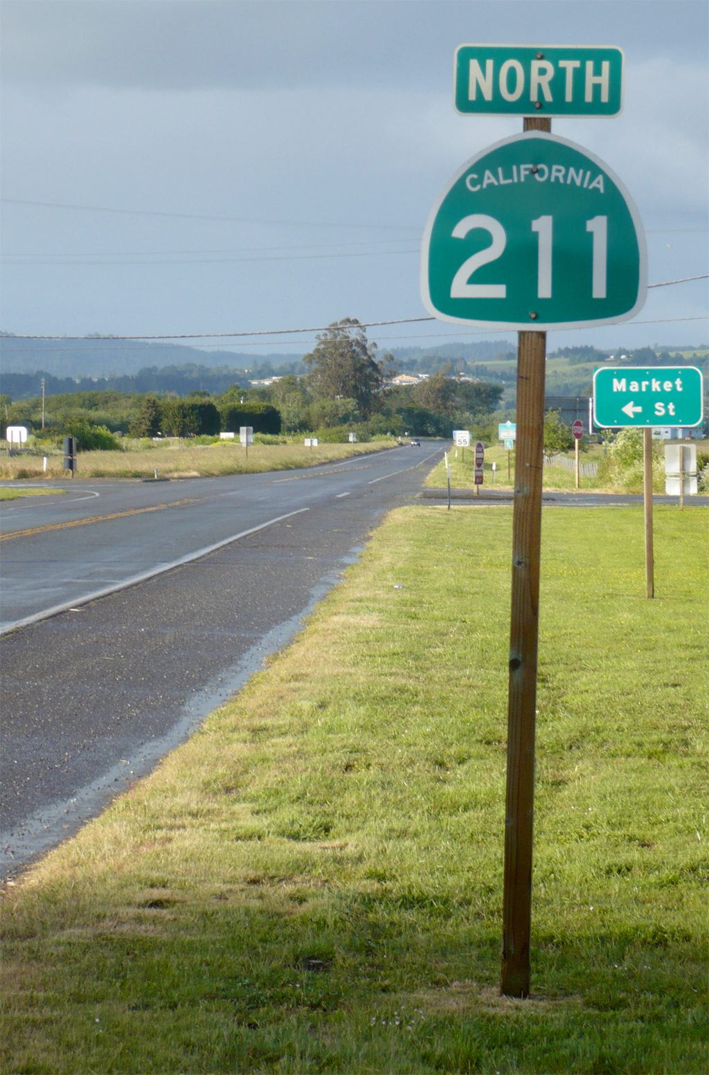 View along California Route 211 looking North at Market Street at the northern city limits of the city of Ferndale, California. Route 211 goes between Ferndale and Fernbridge. A proposed southern extension south of Ferndale will probably never be built